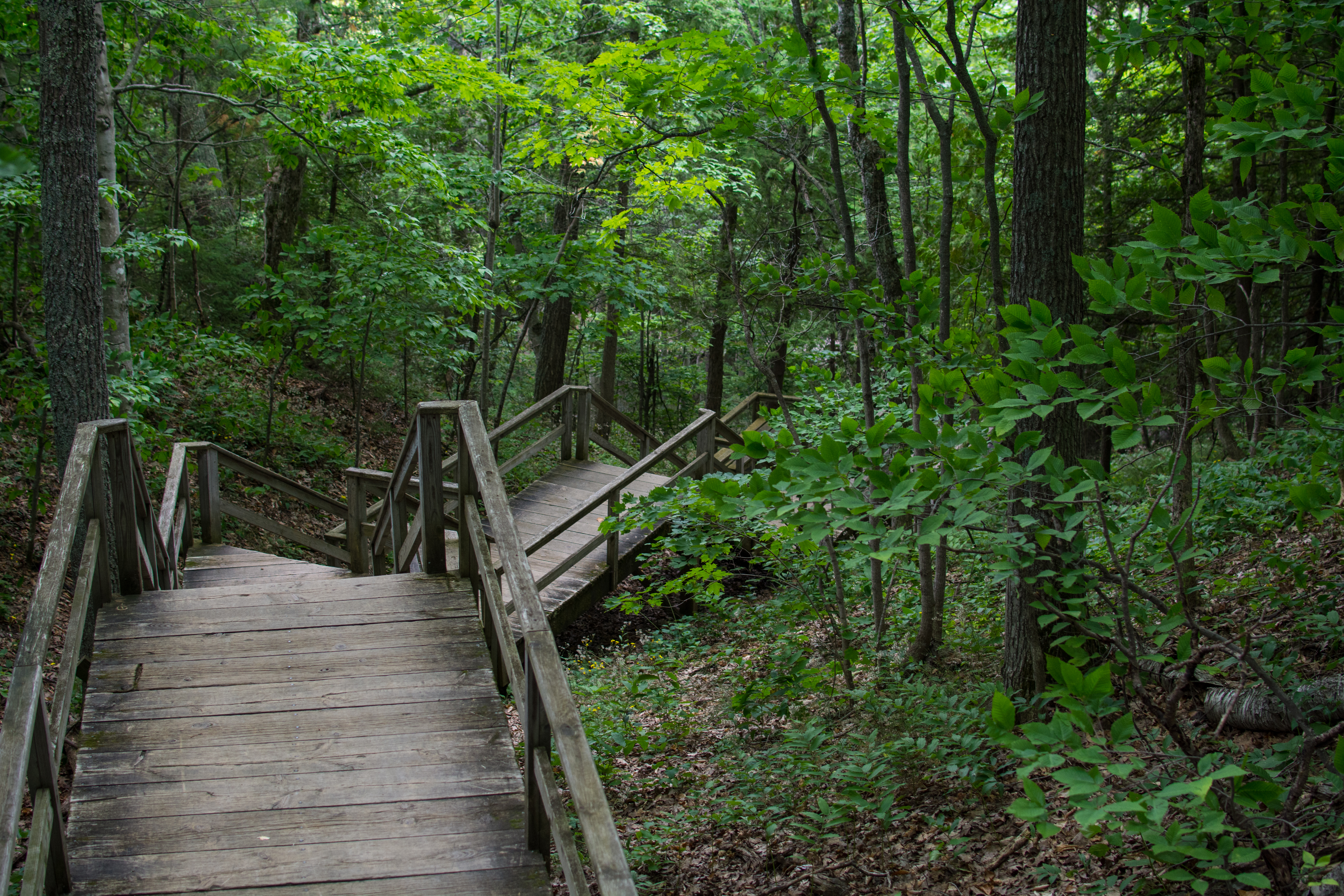 Stairway up to Fort Holmes, the highest point on Mackinac Island